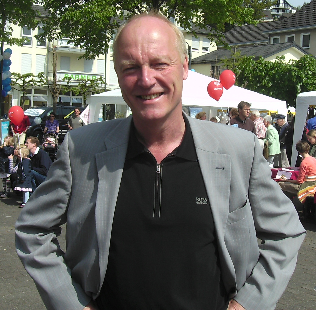 Rolf Menzel, Germany.